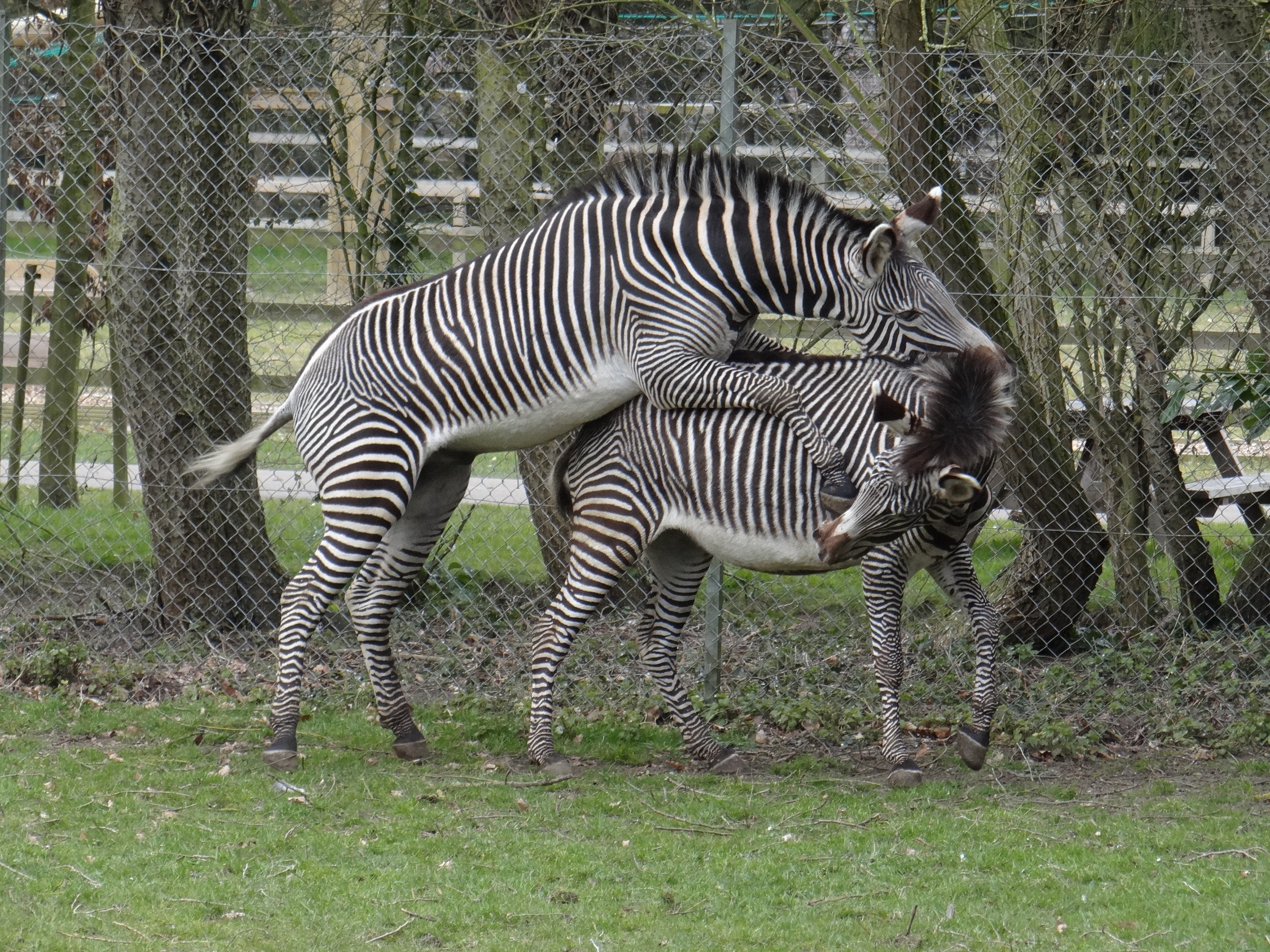 Grévy's Zebra mating